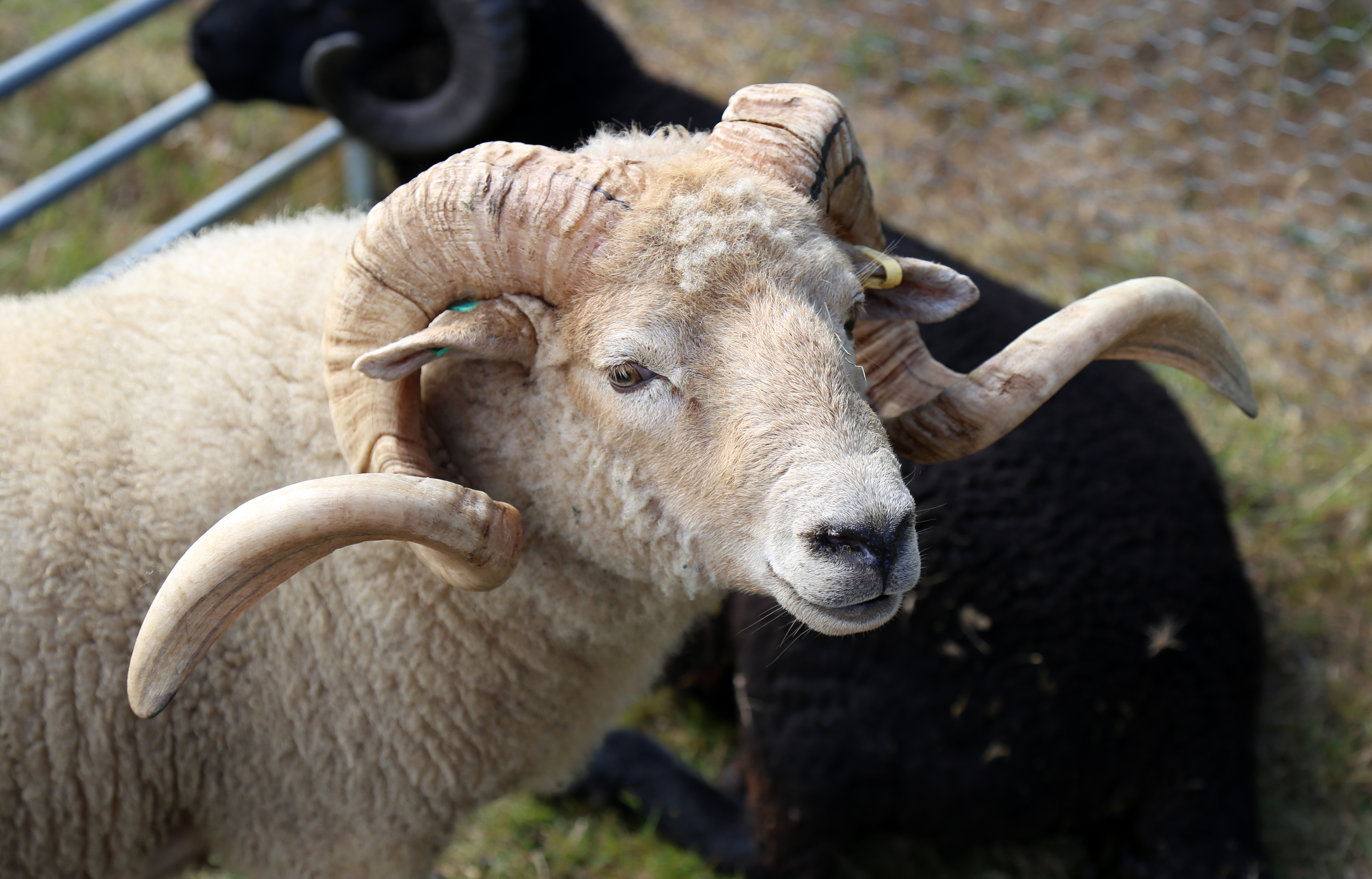 A Portland ram at Shipley, West Sussex, England. The Portland, named after the Isle of Portland in Dorset, is a rare breed, traditionally best bred on downlands. It is a sheep of good temperament, produces high quality meat, and wool for spinning. Ewes are notably good mothers and good milk producers, usually birthing one offspring, sometimes two, and of 38-40kg. An adult ram is typically of approximately 55kg. The horns of the ram are popular for making walking stick handles.